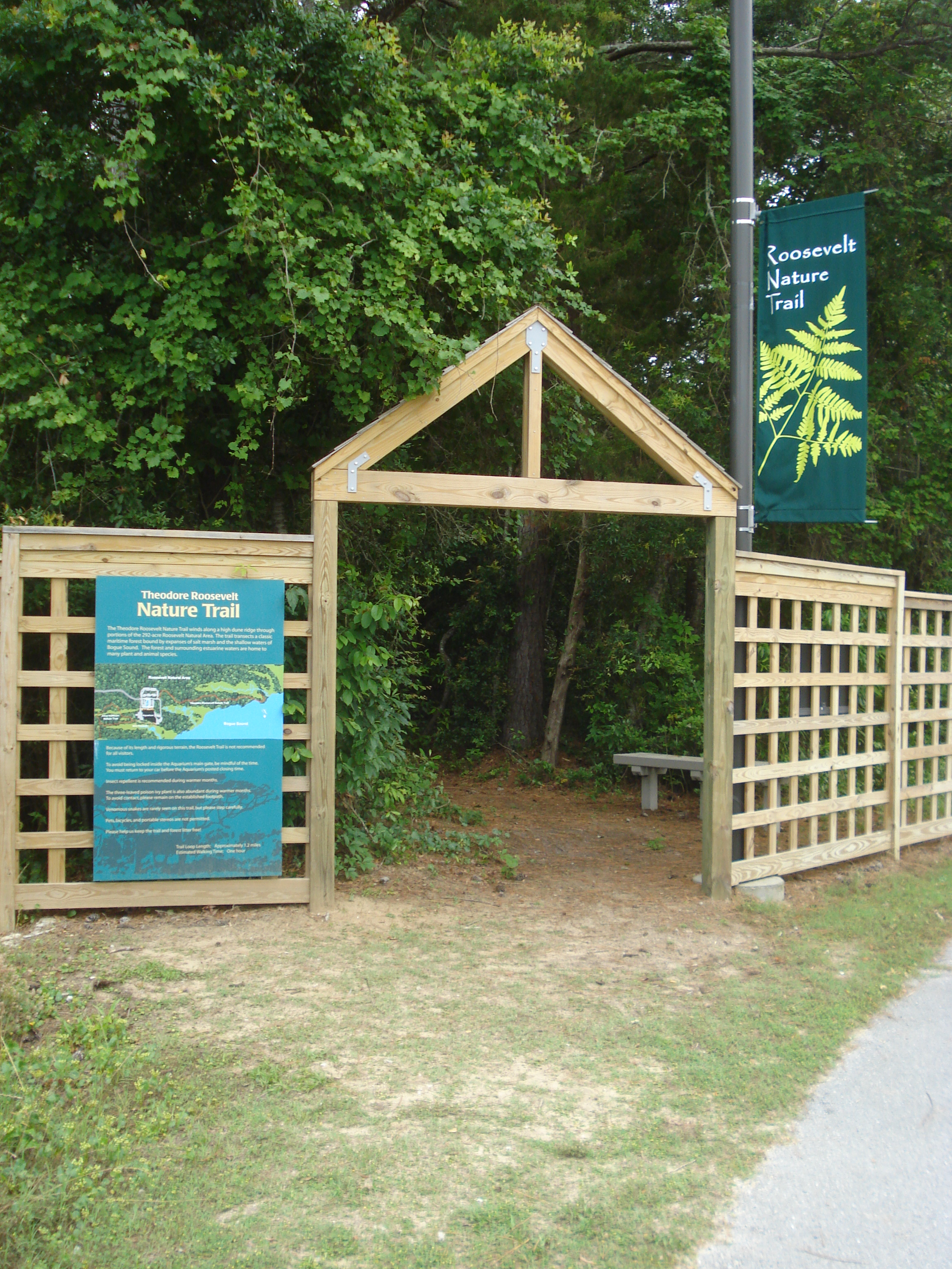 This is the trailhead for the Roosevelt Nature Trail of Theodore Roosevelt State Natural Area. The trailhead is located at the southwestern corner of the parking lot for the North Carolina Aquarium at Pine Knoll Shores, which is surrounded by the natural area.